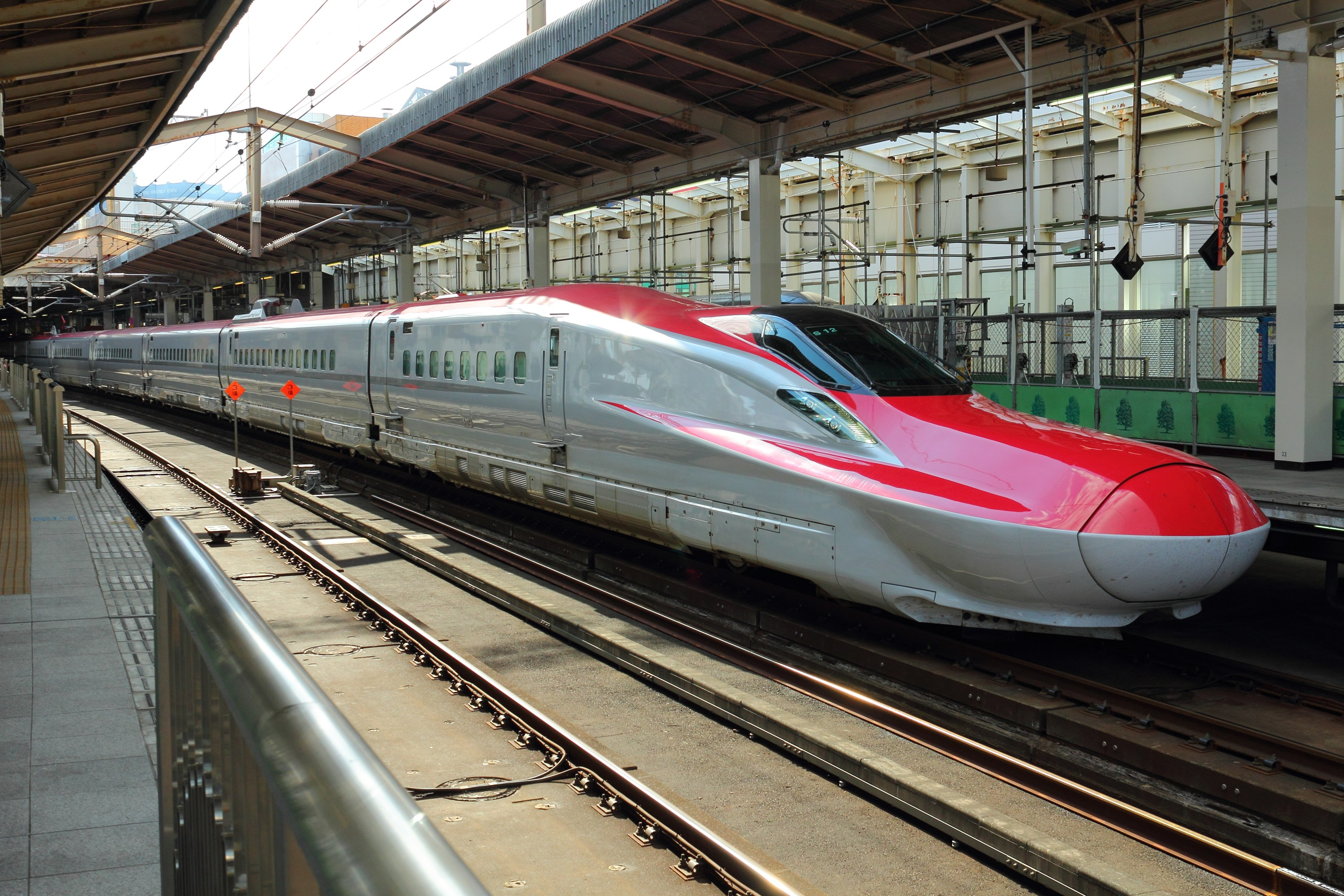 JR East E6 series pre-production shinkansen set S12 at Sendai Station on a test run